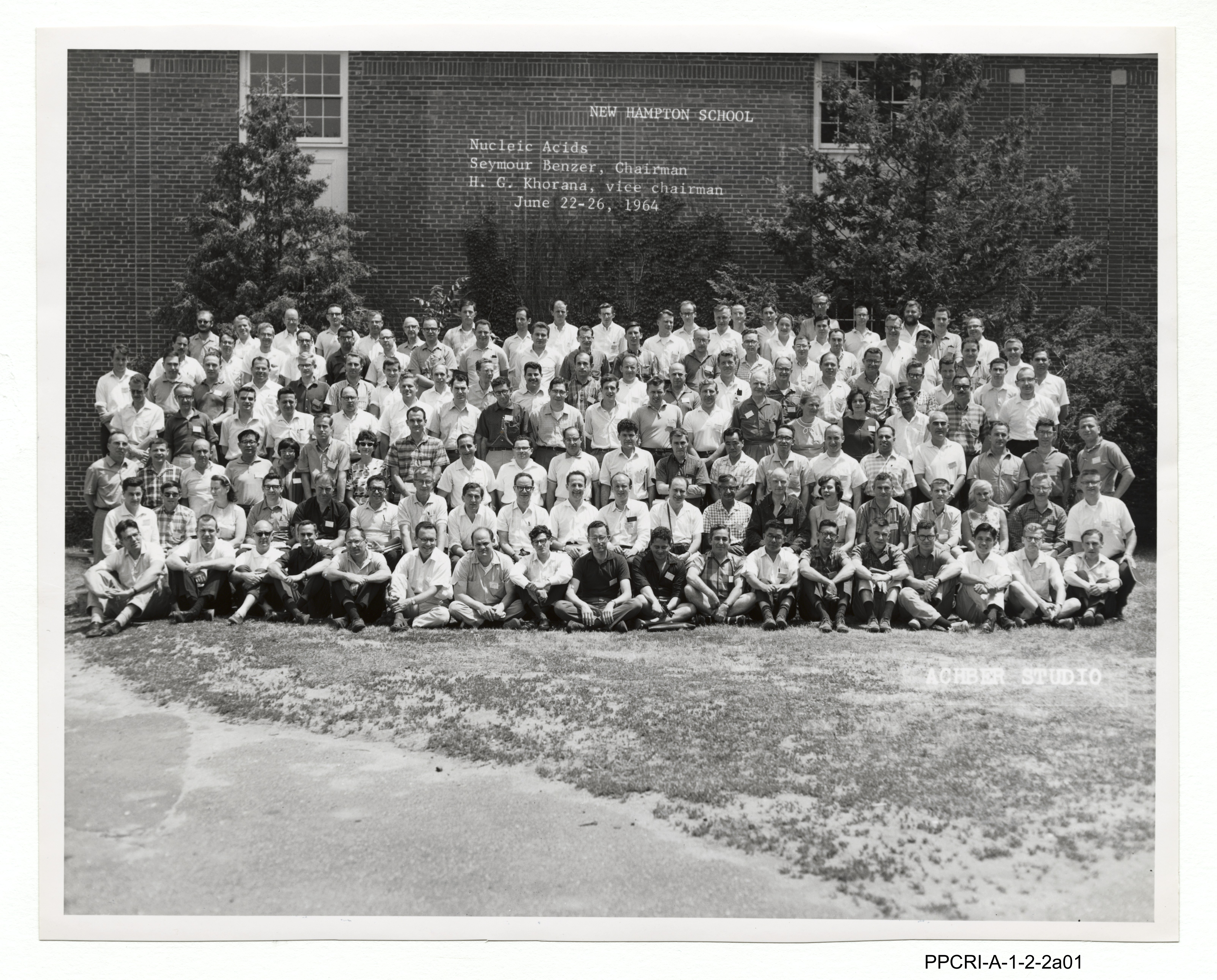 Group portrait of conference participants at the Gordon Research Conference on Nucleic Acids, New Hampton, June 22-26, 1964. Francis Crick is seventh from the right in the second row. Archives & Manuscripts Keywords: Genetics; Francis Harry Compton Crick